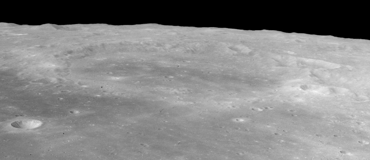 Oblique view of Fracastorius crater, on the moon, facing south. The small crater Rosse is in lower left.